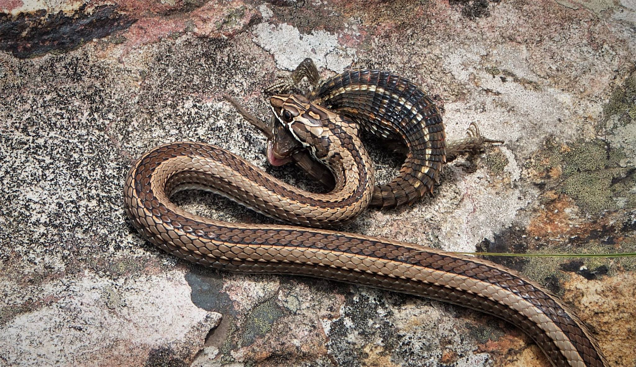 Cross-marked Sand snake (Psammophis crucifer) caught a Transvaal girdled lizard (Cordylus vittifer). The lizard was biting its own tail making it difficult for the snake to swallow. Near Kaapsehoop, Mpumalanga, South Africa